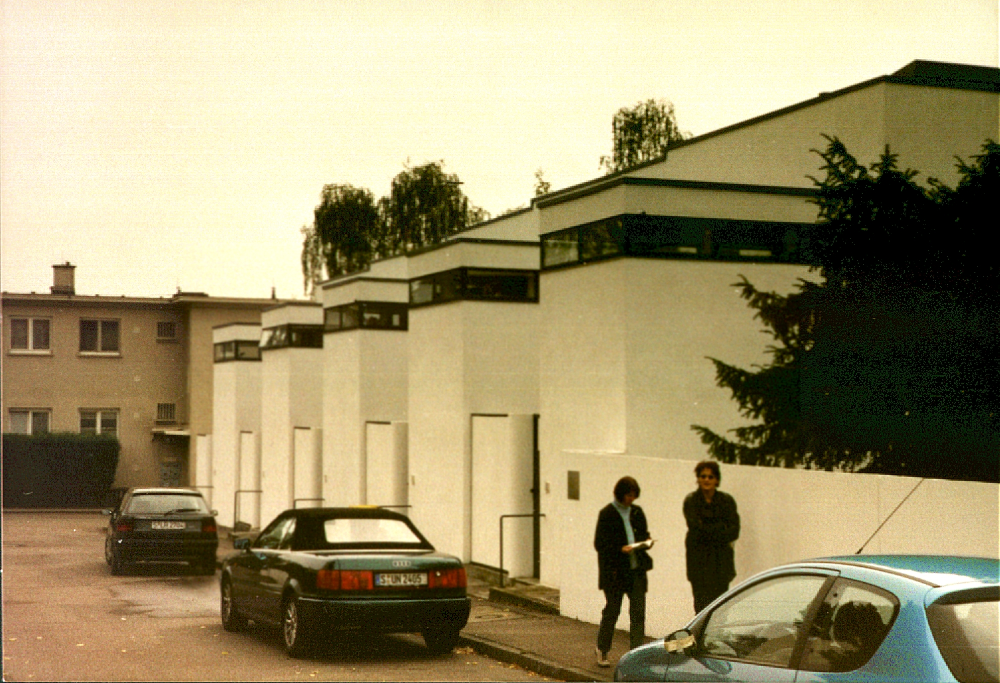 Stuttgart-Weissenhof, Germany House by J.P. Oud, 1927. International style. analogue photography taken by shaqspeare, September 2001, scanned 2005 GFDL